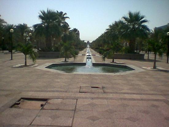 King Abdulaziz University in Jeddah - Saudi Arabia